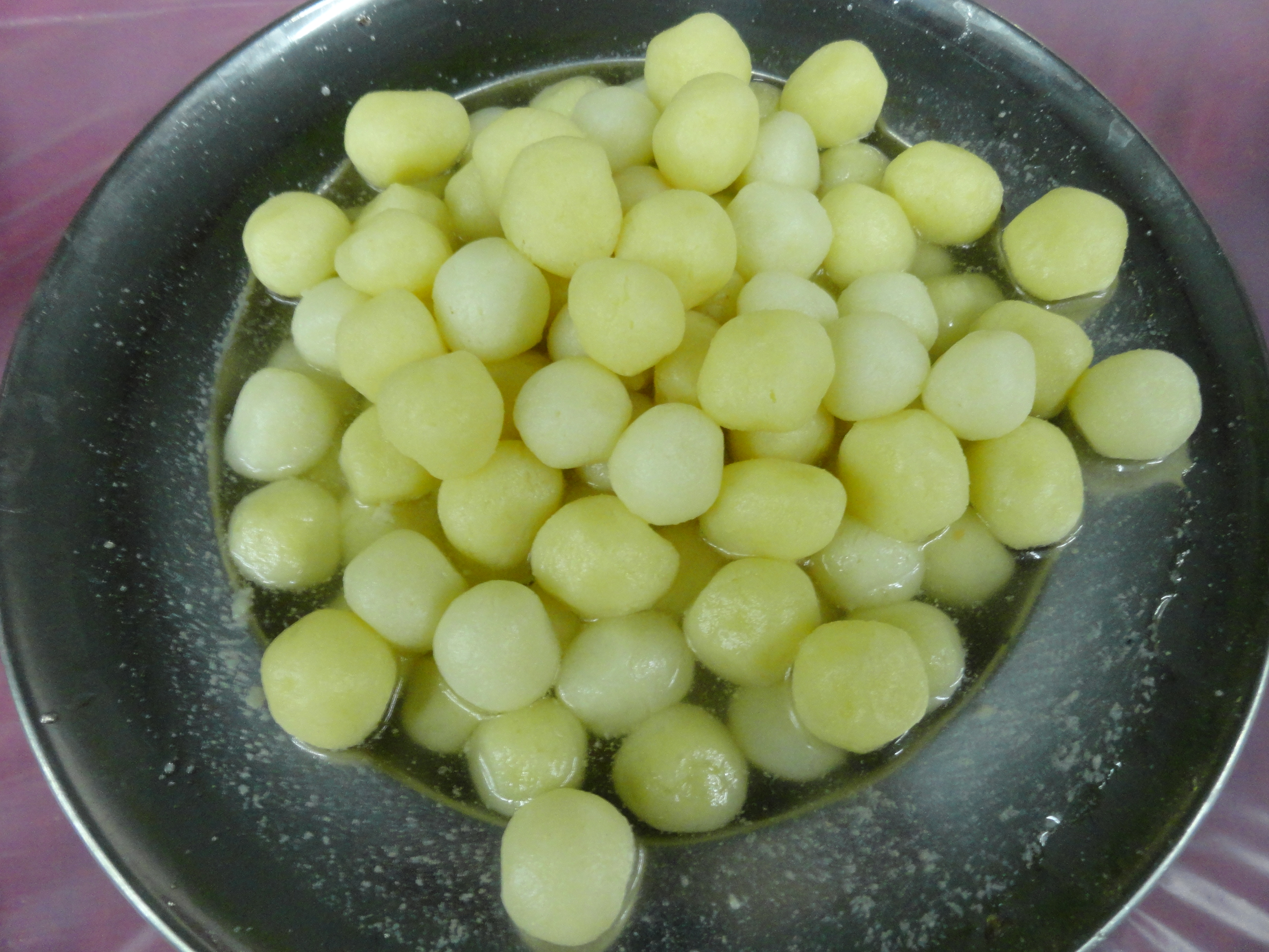 Rasagulla sweet